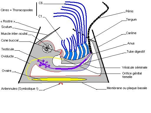 Diagram of barnacle anatomy